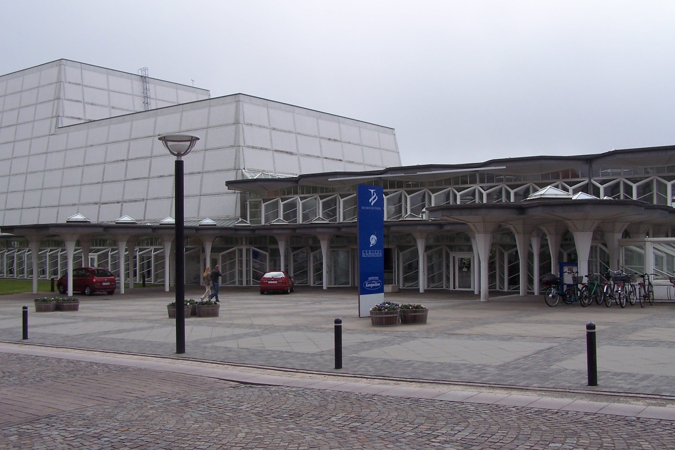 Esbjerg, Musikkhuset (Music Hall). Photo by Cnyborg, May 2005.